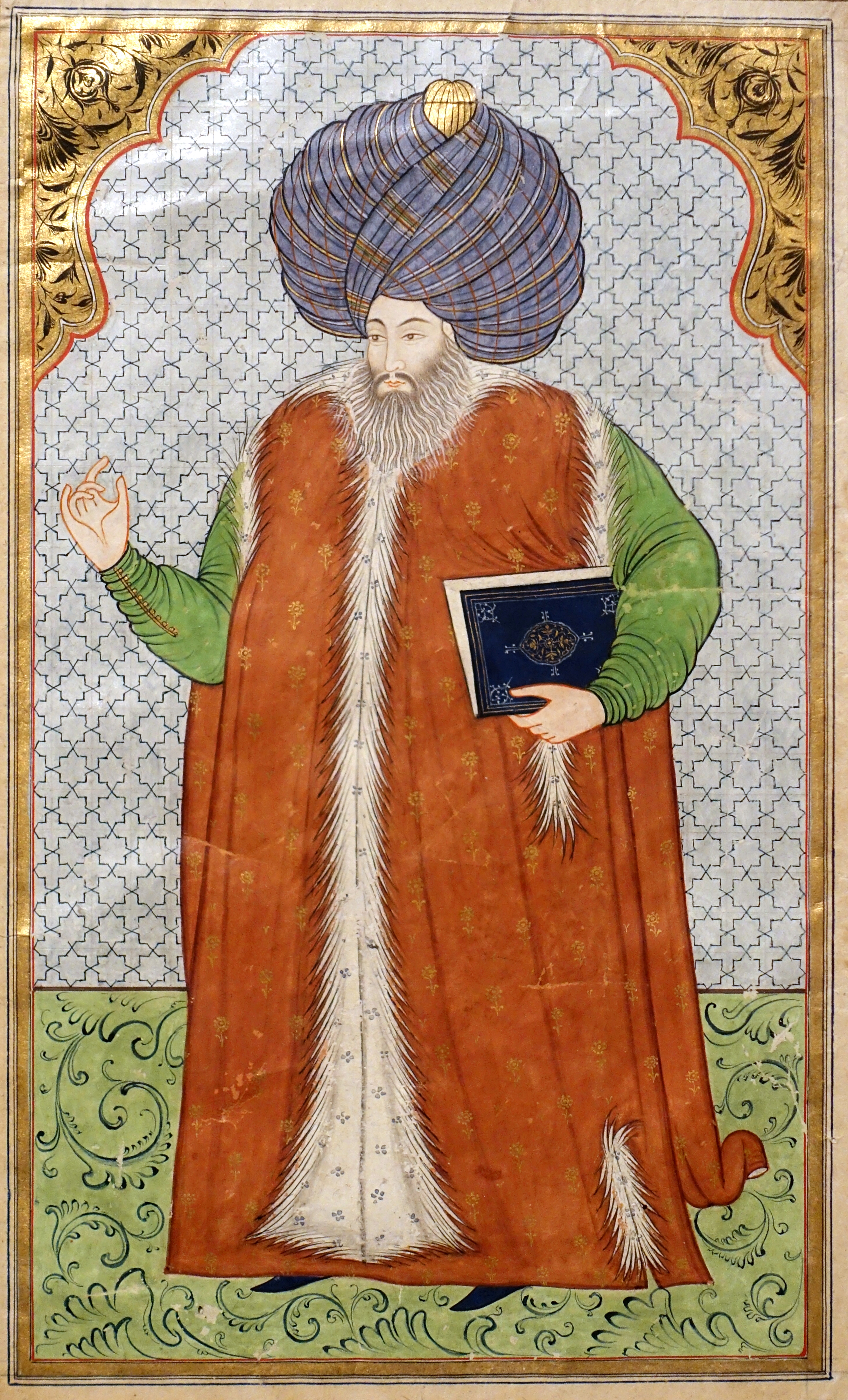 Exhibit in the Aga Khan Museum - Toronto, Canada. This work is old enough so that it is in the public domain.